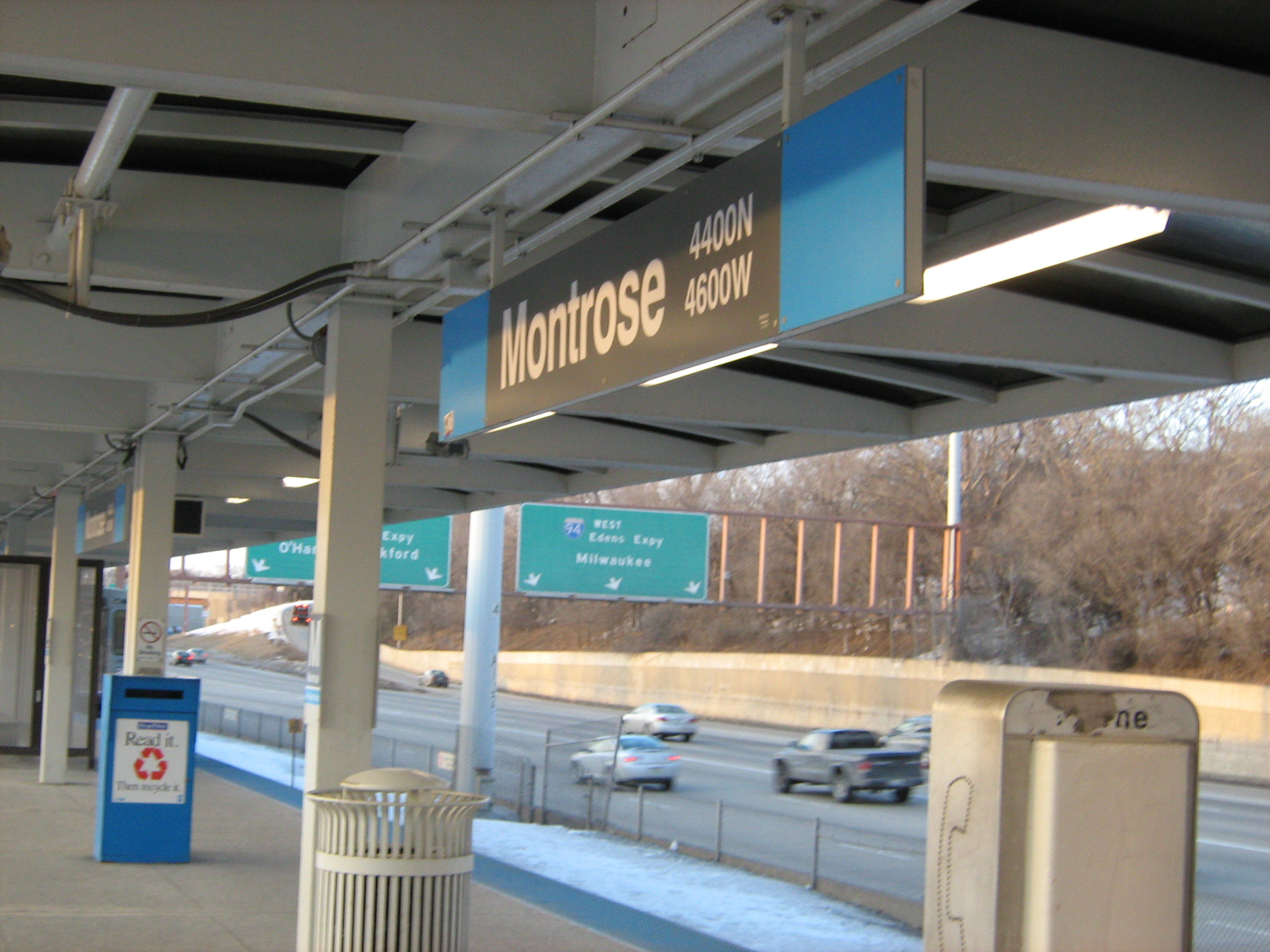 Montrose CTA Blue line Station